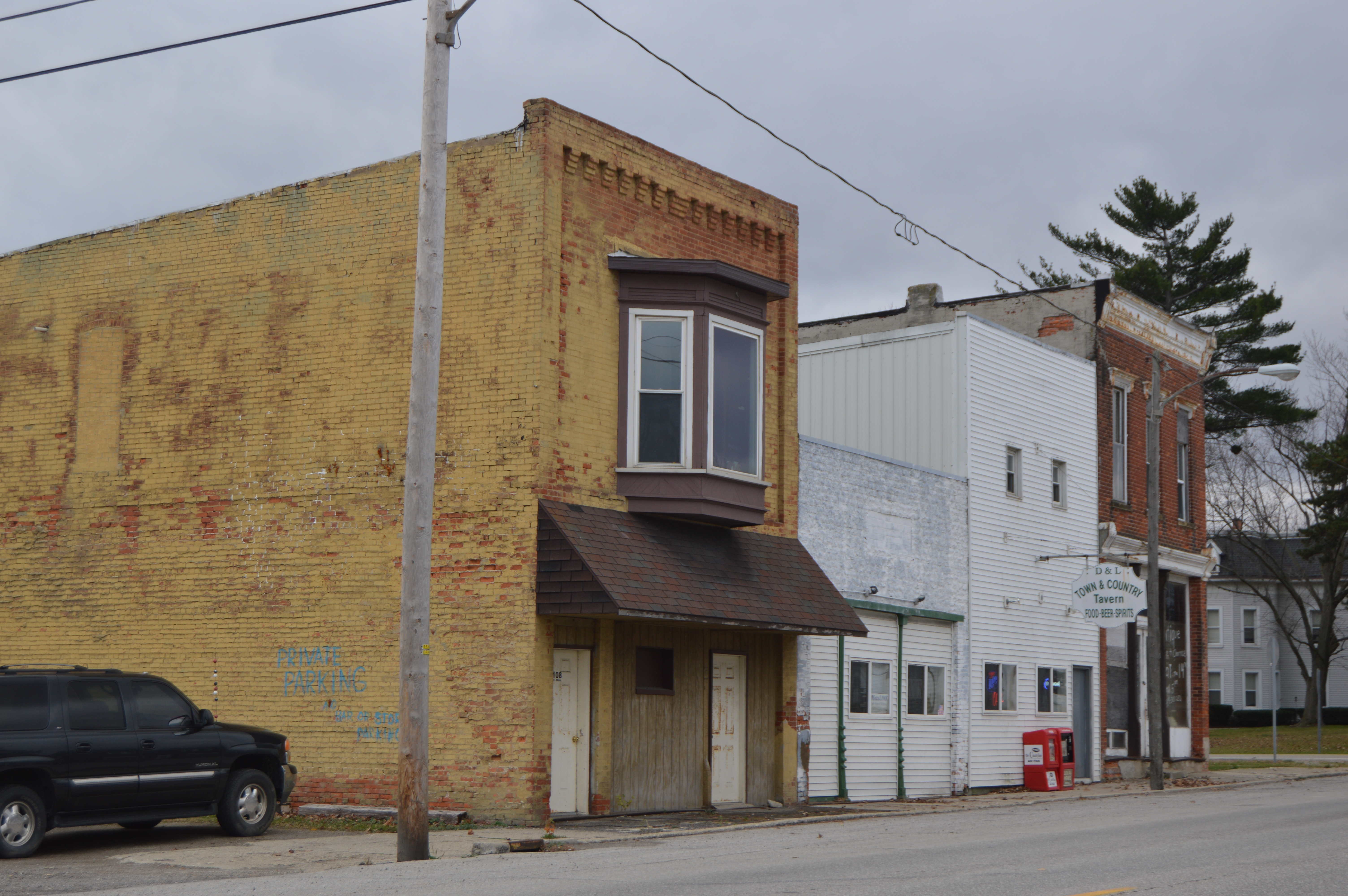 Buildings on the southern side of Main Street (U.S. Route 20) east of Michigan Street in Alvordton, Ohio, United States.